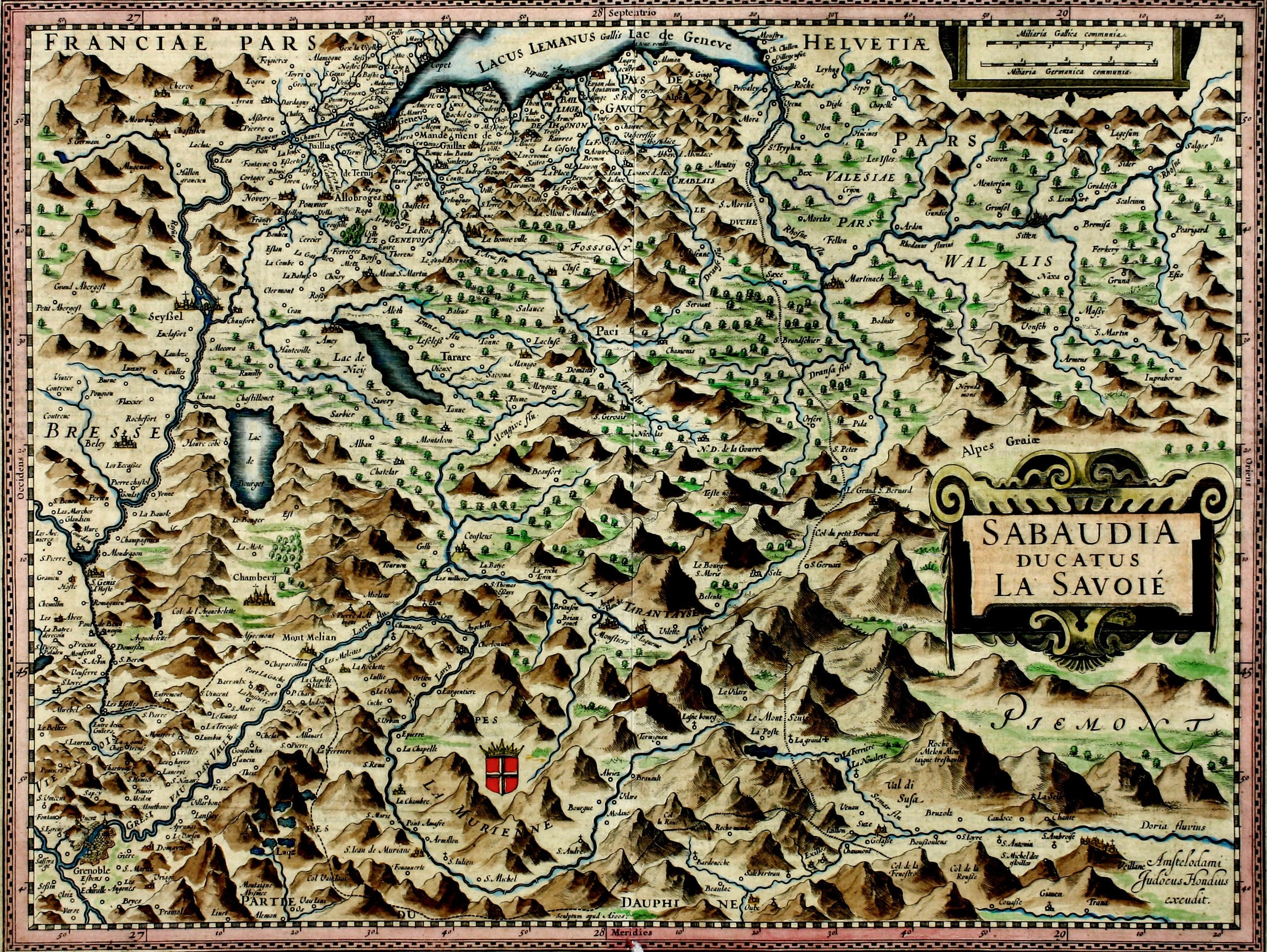 Old map of the Duché de Savoie (1631).